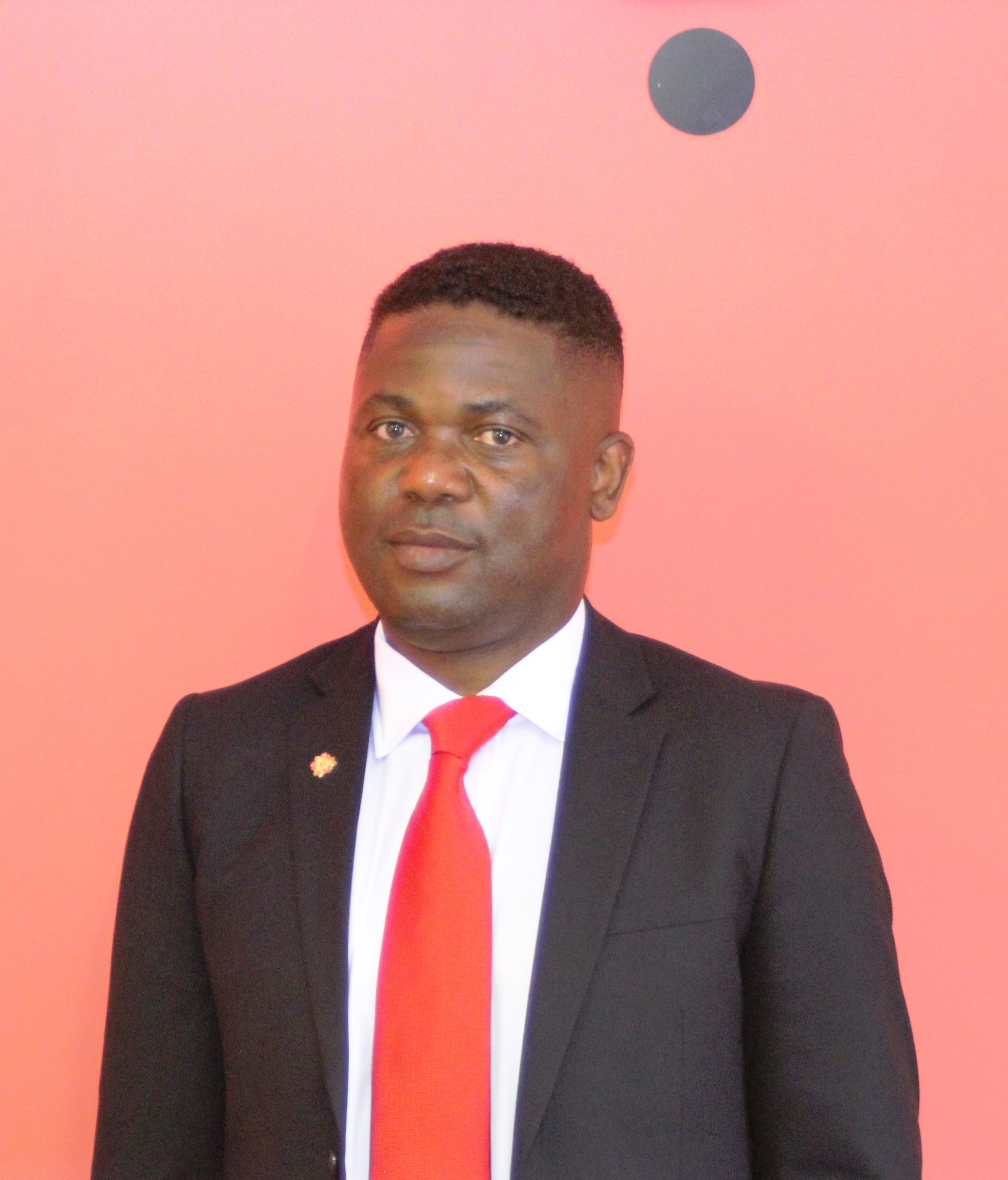 Foligar Kum Lang, opposition political hopeful in Cameroon, preparing for a video broadcast.